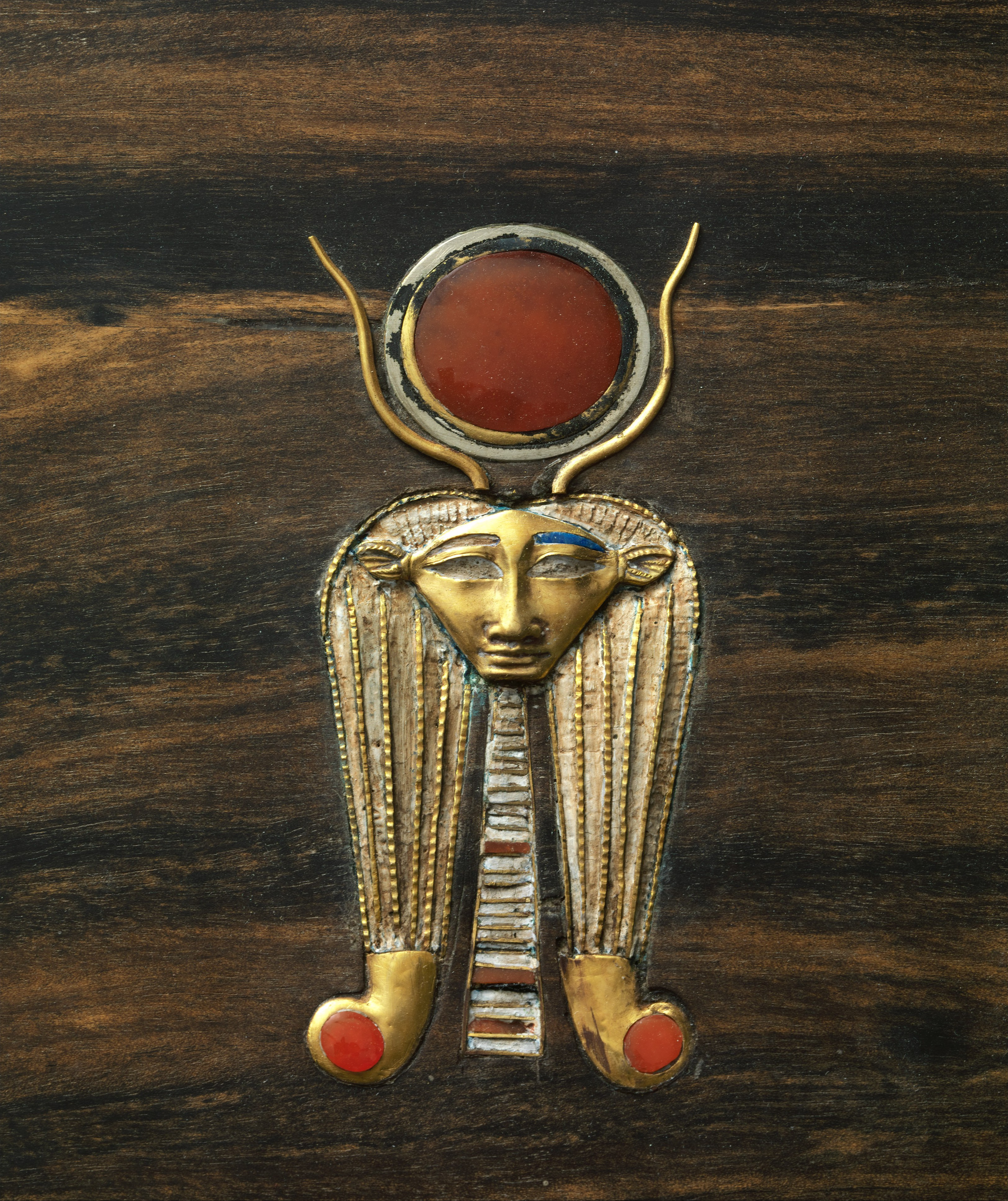 Box, Jewelry casket, Sithathoryunet